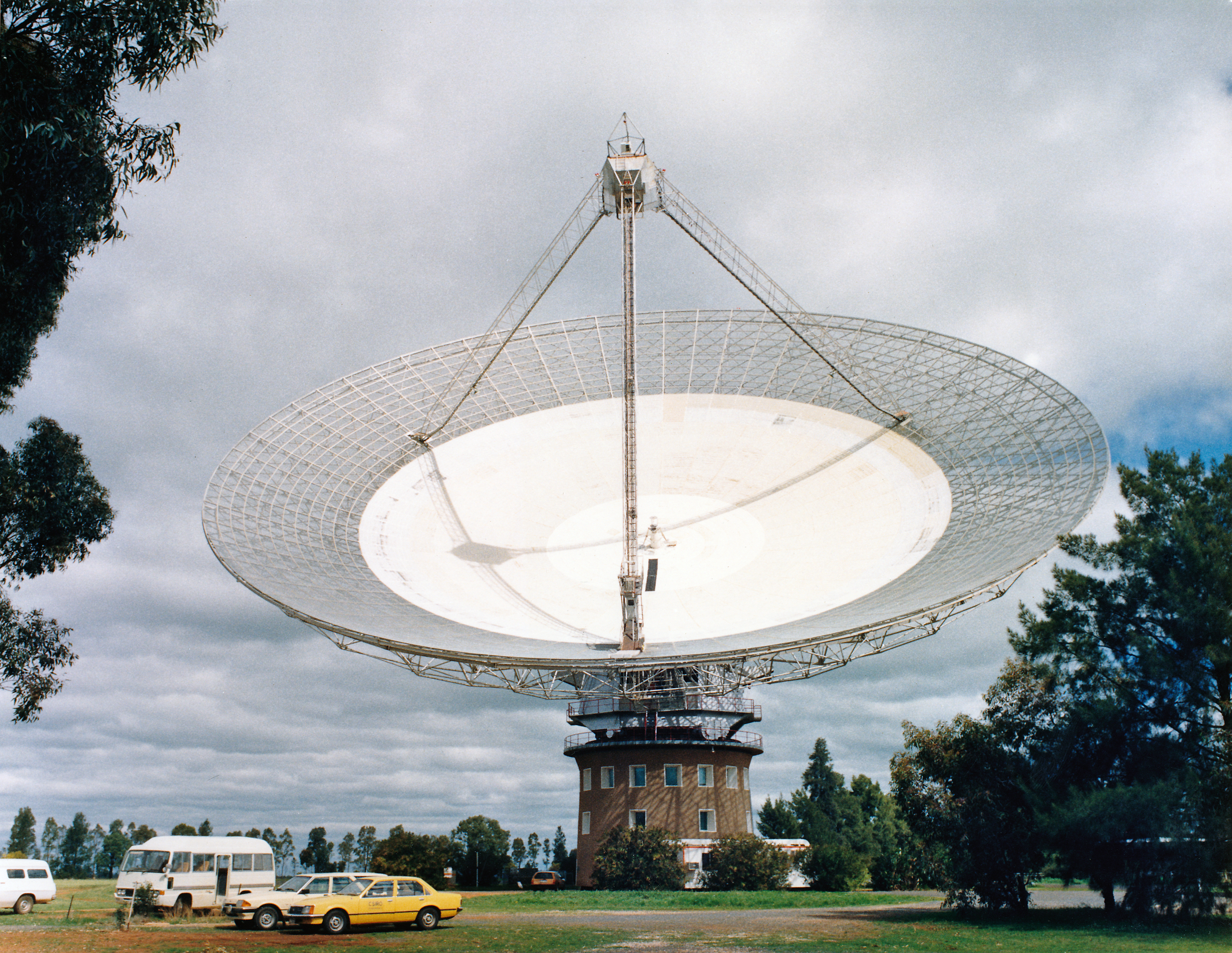 The 64-m Parkes Radio Telescope.